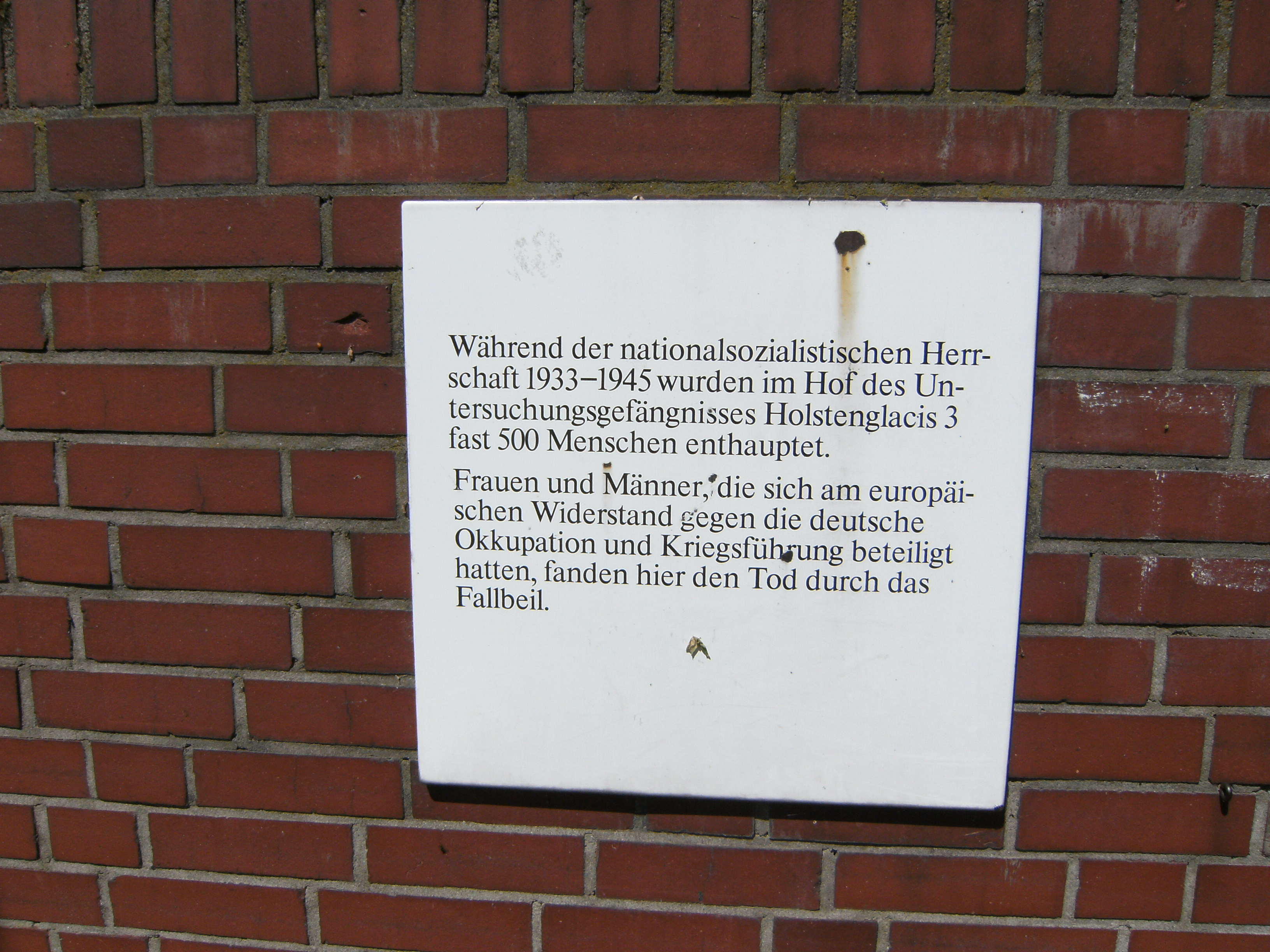 Commemorative plaque at the backside of Untersuchungshaftanstalt Hamburg, Germany. European resistance movement - executions.